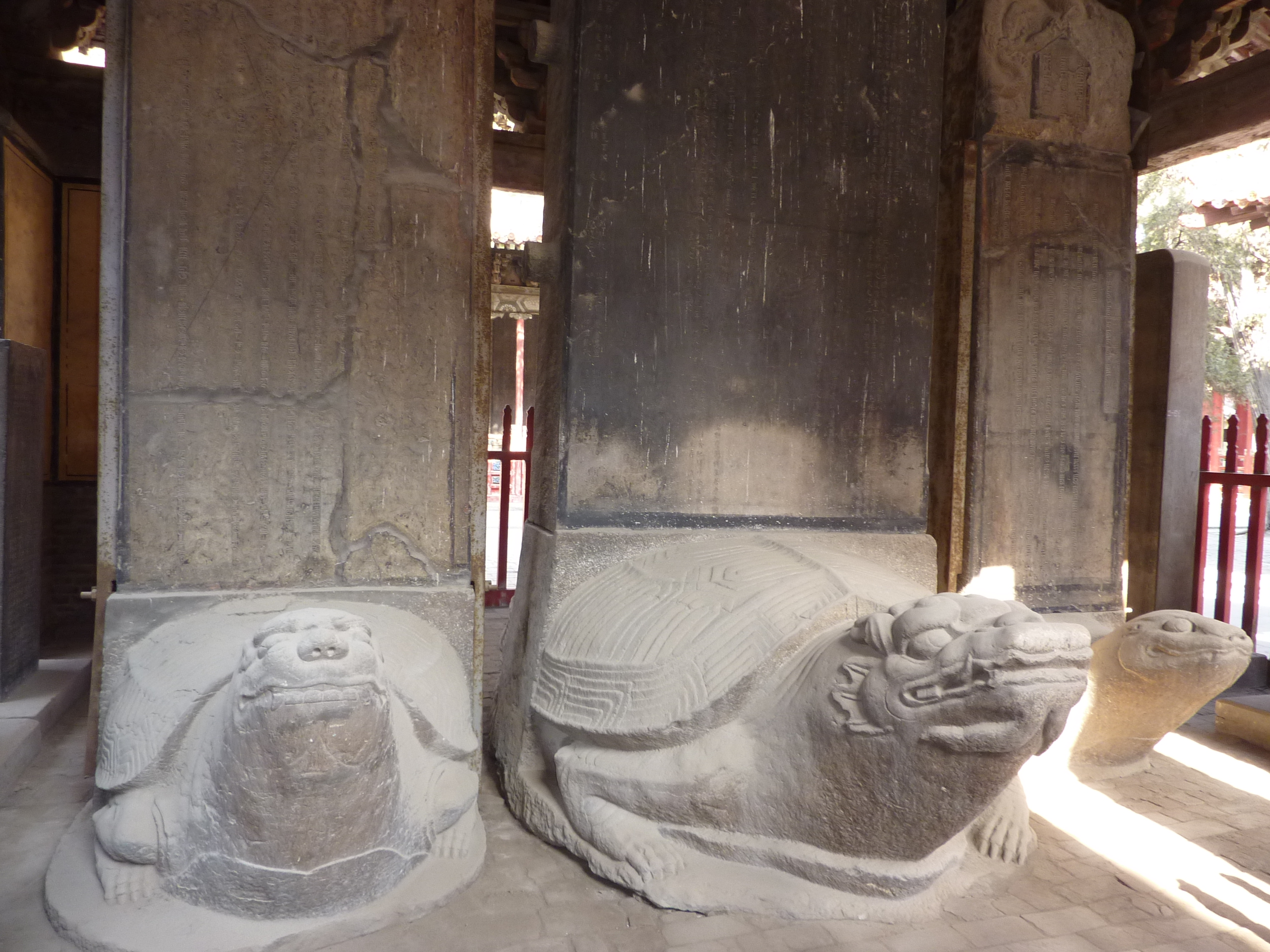 The 4th pavilion, counting from the west, in the southern row of the Thirteen Stele Pavilions of the Temple of Confucius, Qufu. This pavilion houses 3 Yuan Dynasty tortois-borne steles, all facing south. Two of them (right and left) are written in Mongol in 'Phags-pa script; the middle one, in Chinese.